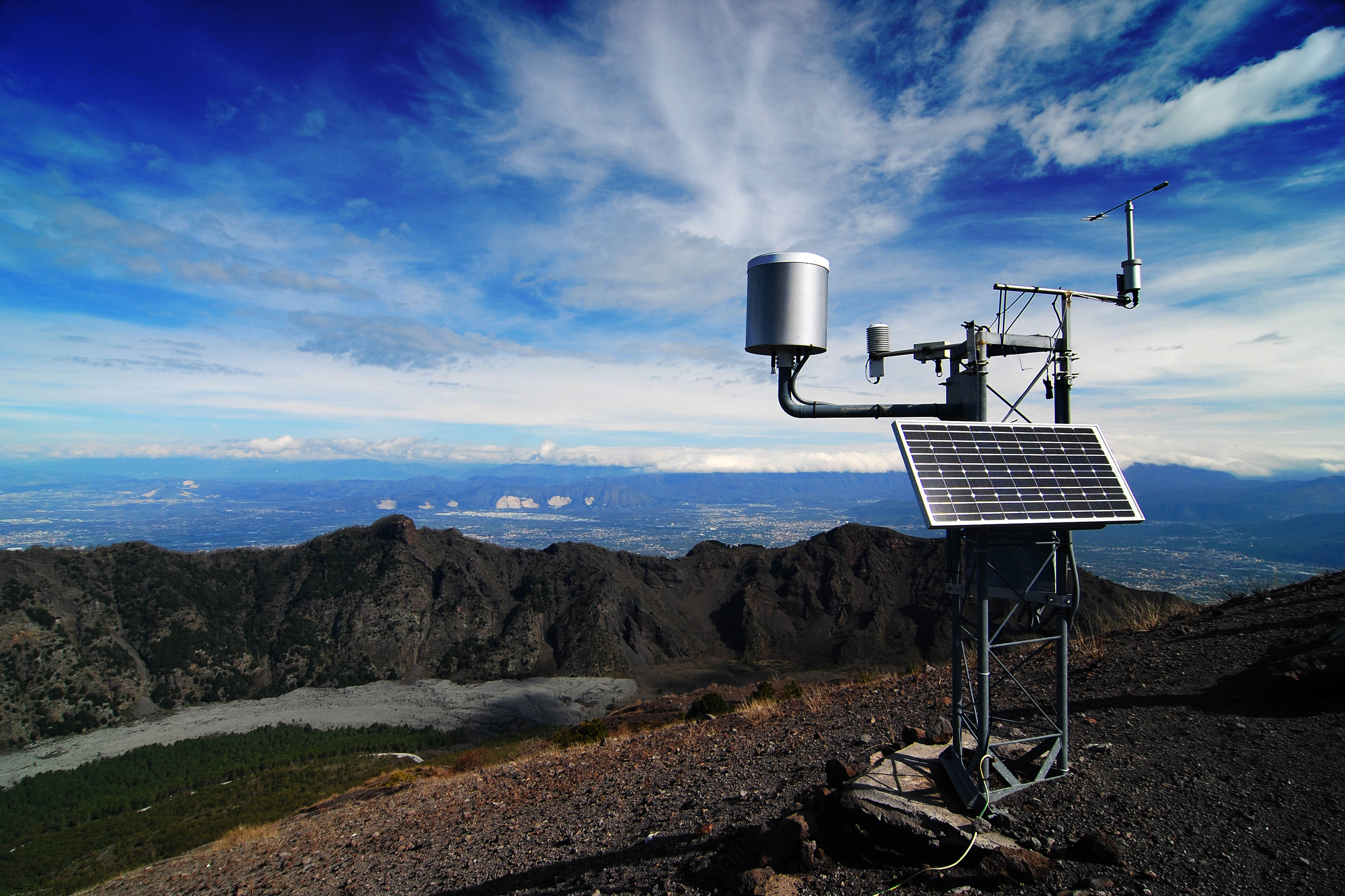 Found in archive. Taken on my trip to Italy in March 2007 meteo weather solar panel